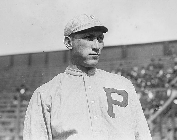 1911 photograph of Fred Luderus, first baseman for the Philadelphia Phillies. This image is cropped slightly from the original plate.